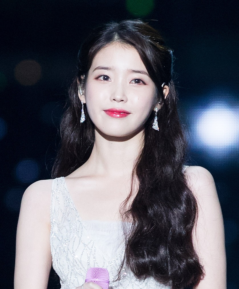 IU at MelOn Music Awards, 2 December 2017